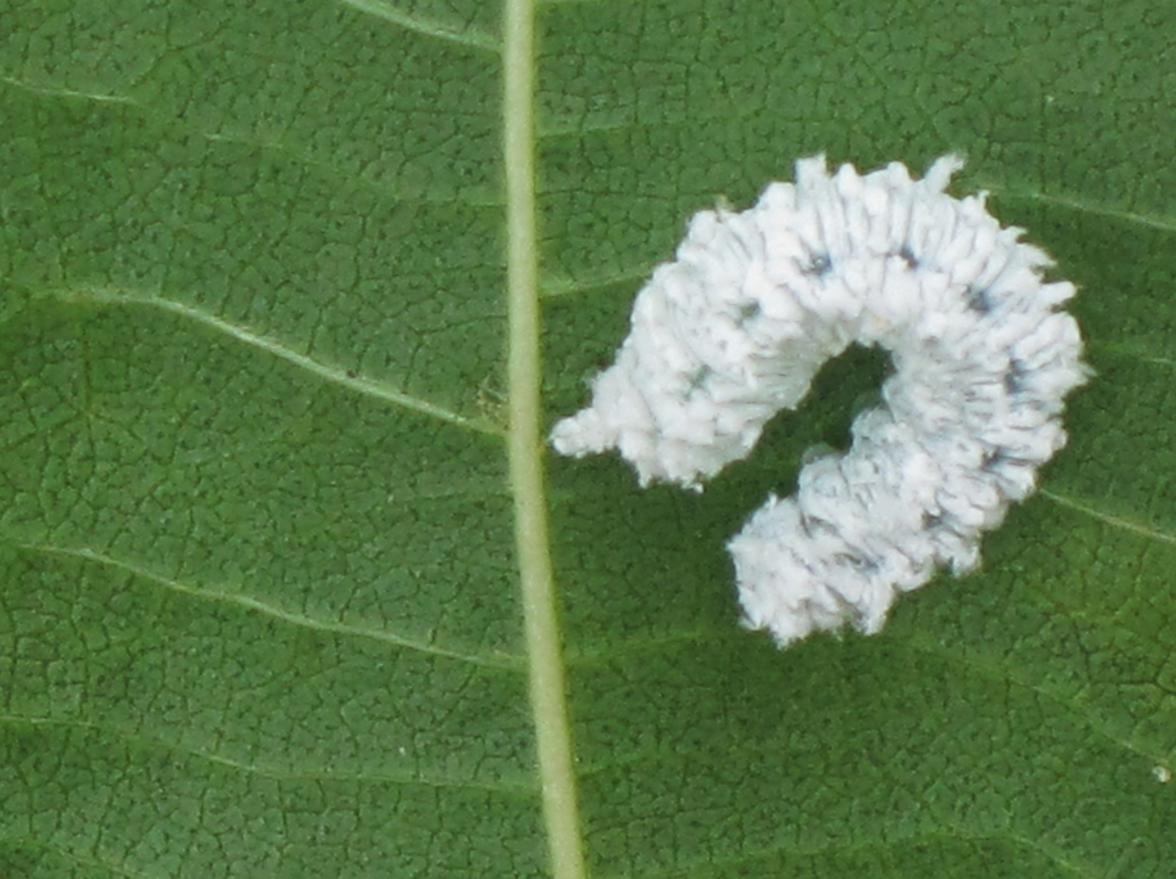 Eriocampa ovata (Woolly Alder Sawfly) larva, Arnhem, the Netherlands